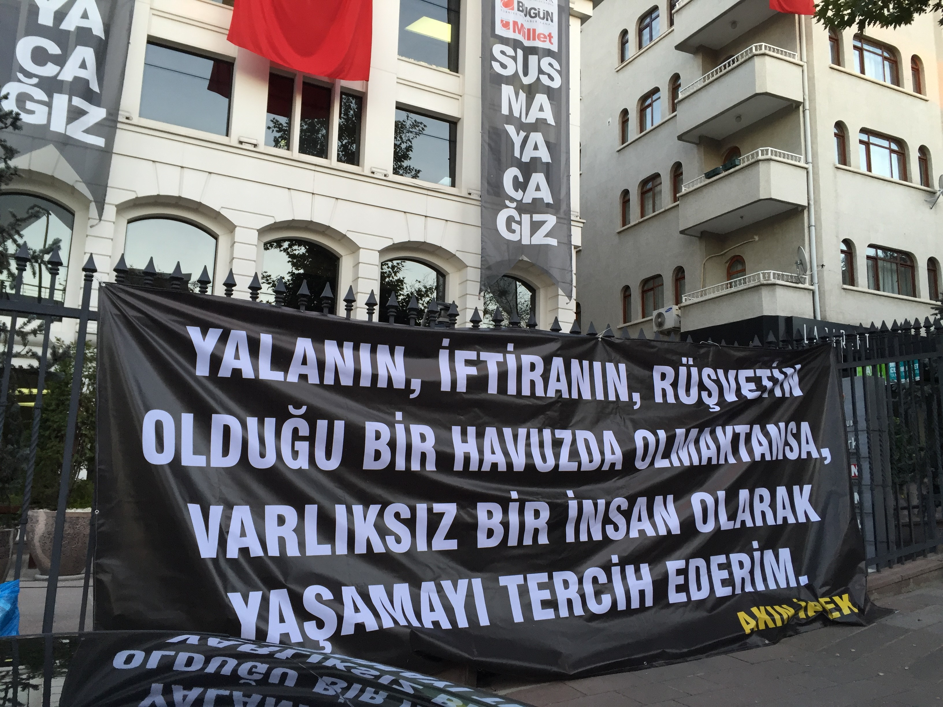 Protest banner against the 2015 Koza İpek raid in front of the company's headquarter